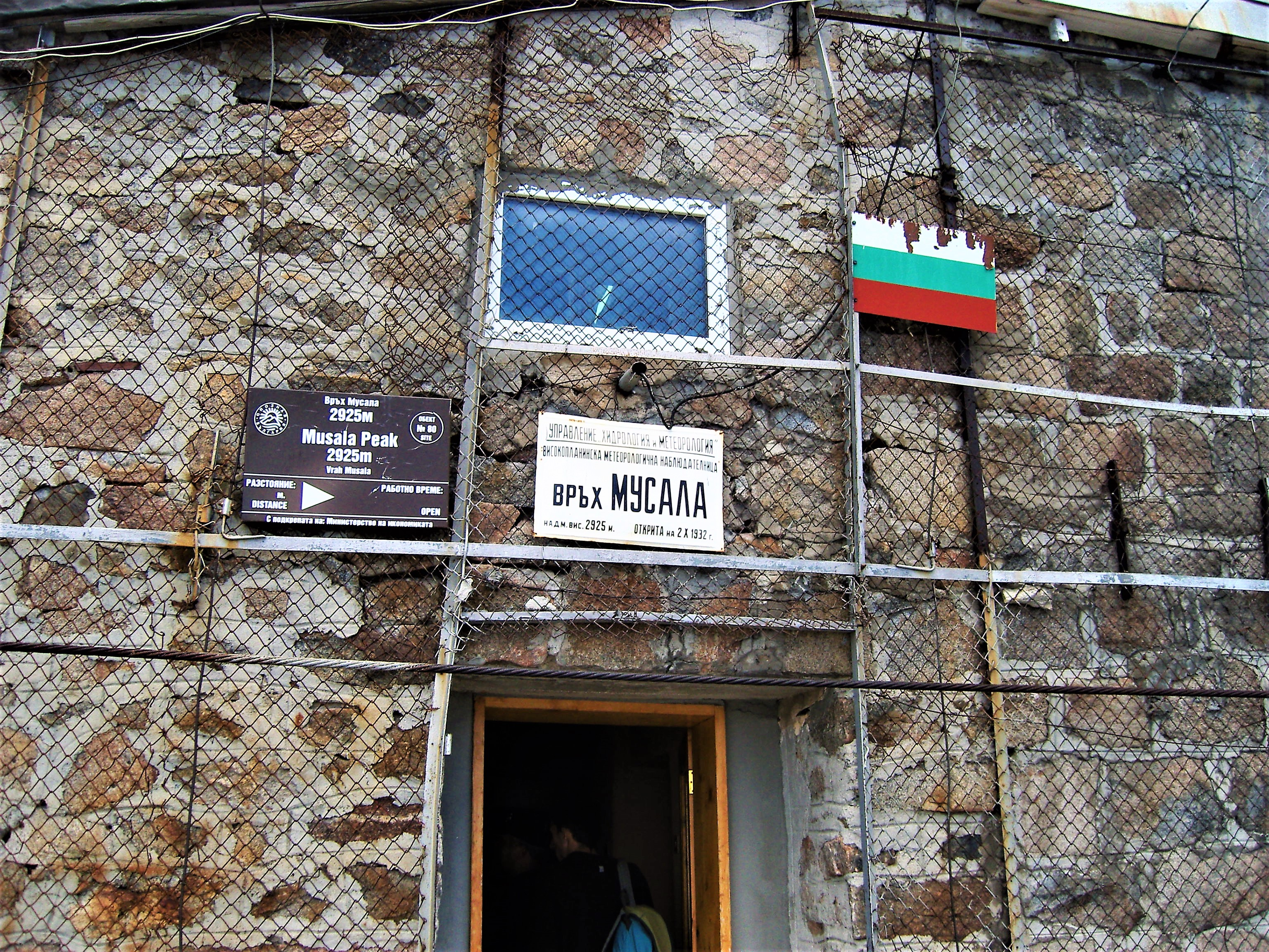 Musala Peak